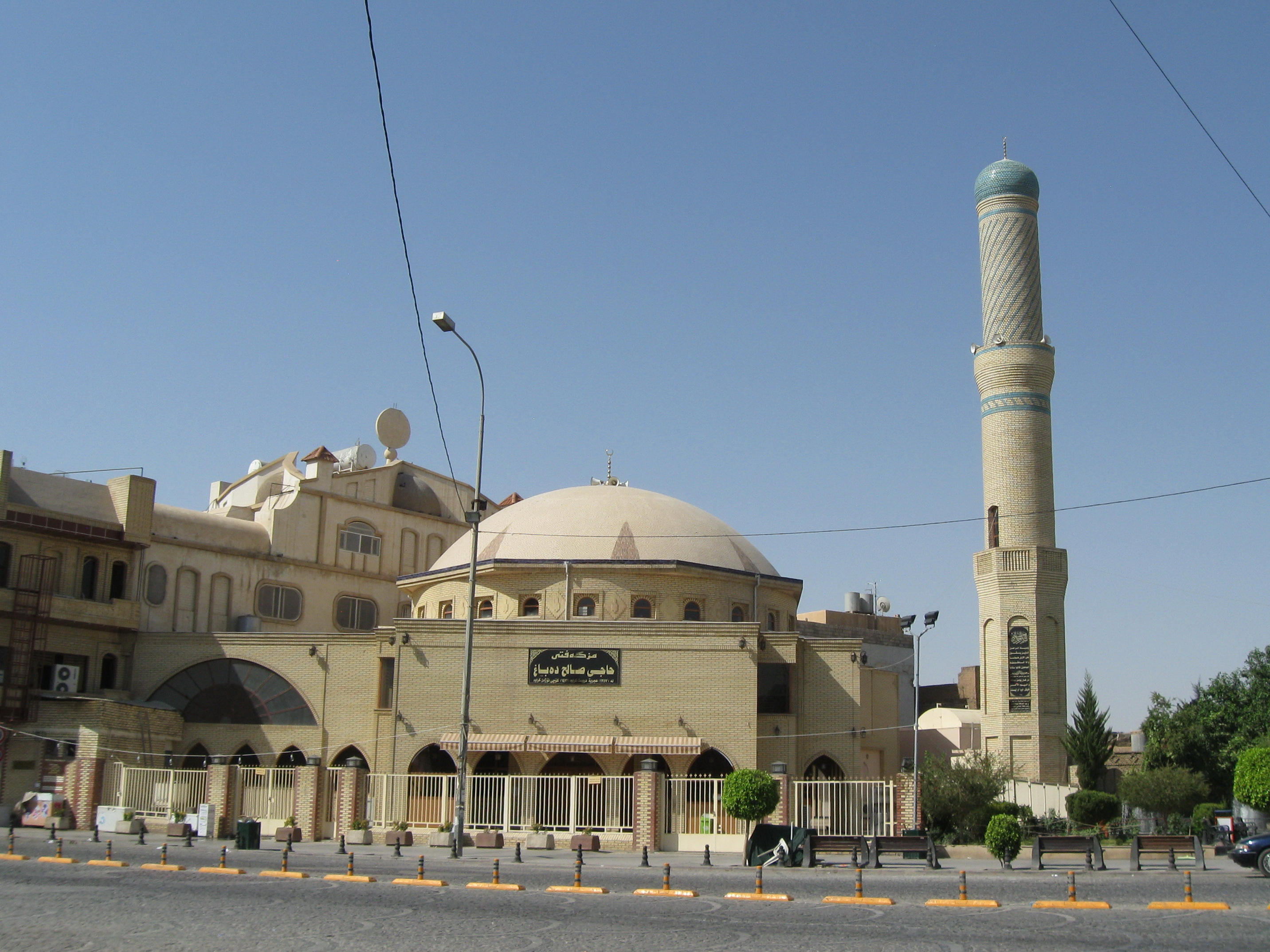 Iraq (Kurdistan)